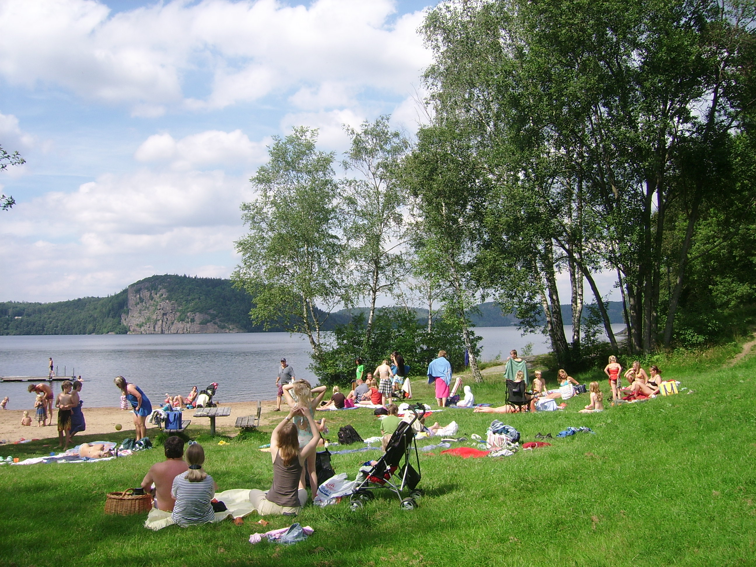 A beach (named Bastevik) by the east side of the lake Hällungen near Ucklum in the Municipality of Stenungsund